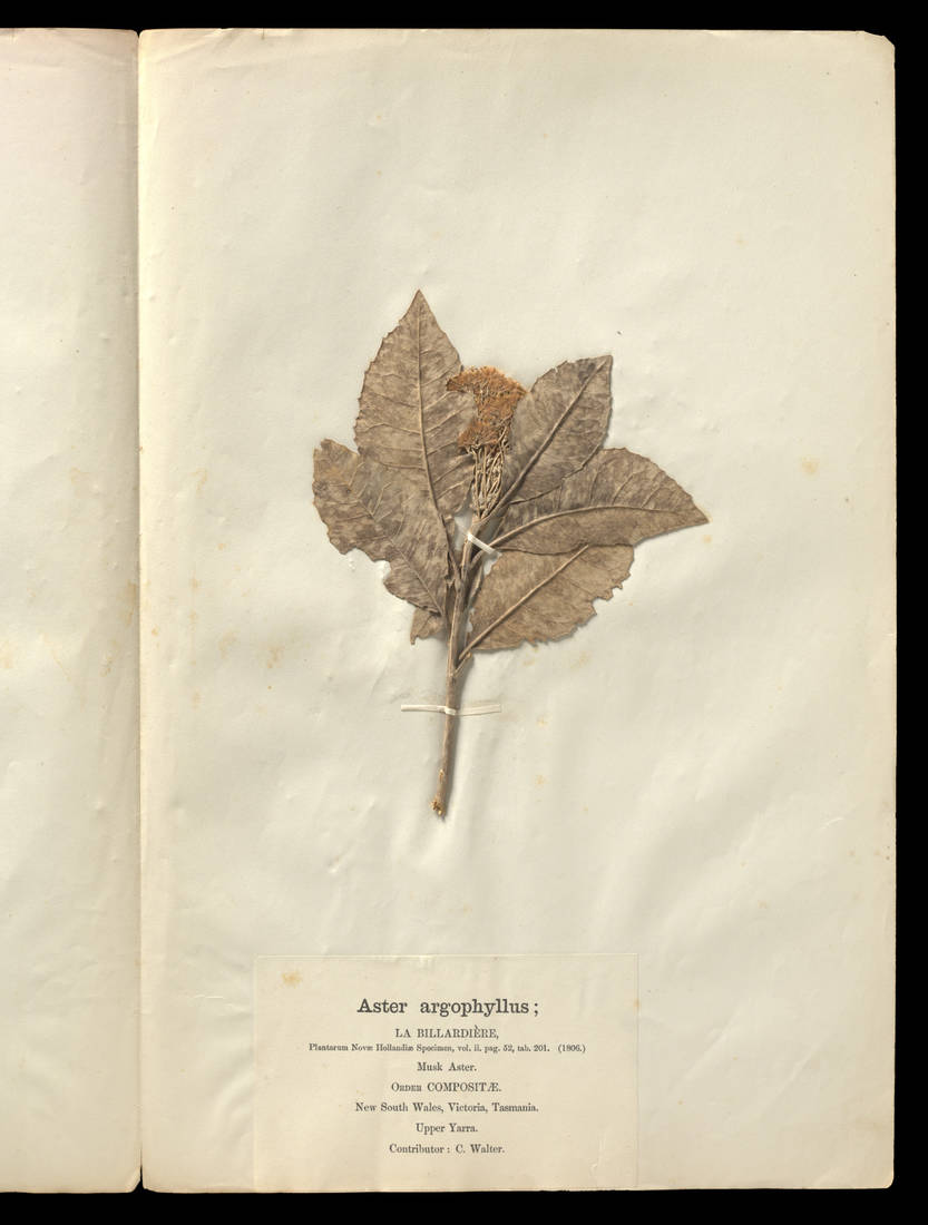 Aster argophyllus at the National Museum Australia